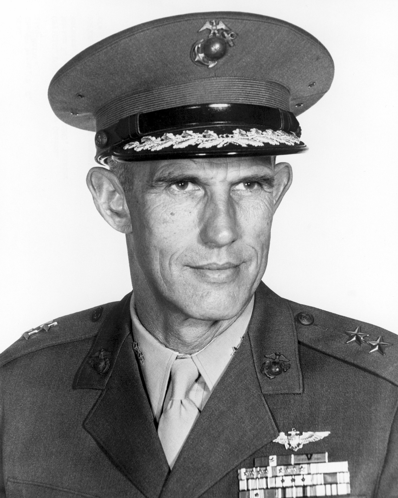 Official Portrait of US Marine Corps (USMC) Major General (MGEN) Marion E. Carl, taken at Marine Corps Air Station, Cherry Point, North Carolina (NC), August 11, 1967. MGEN Carl is an Ace Pilot credited with 18 kills.